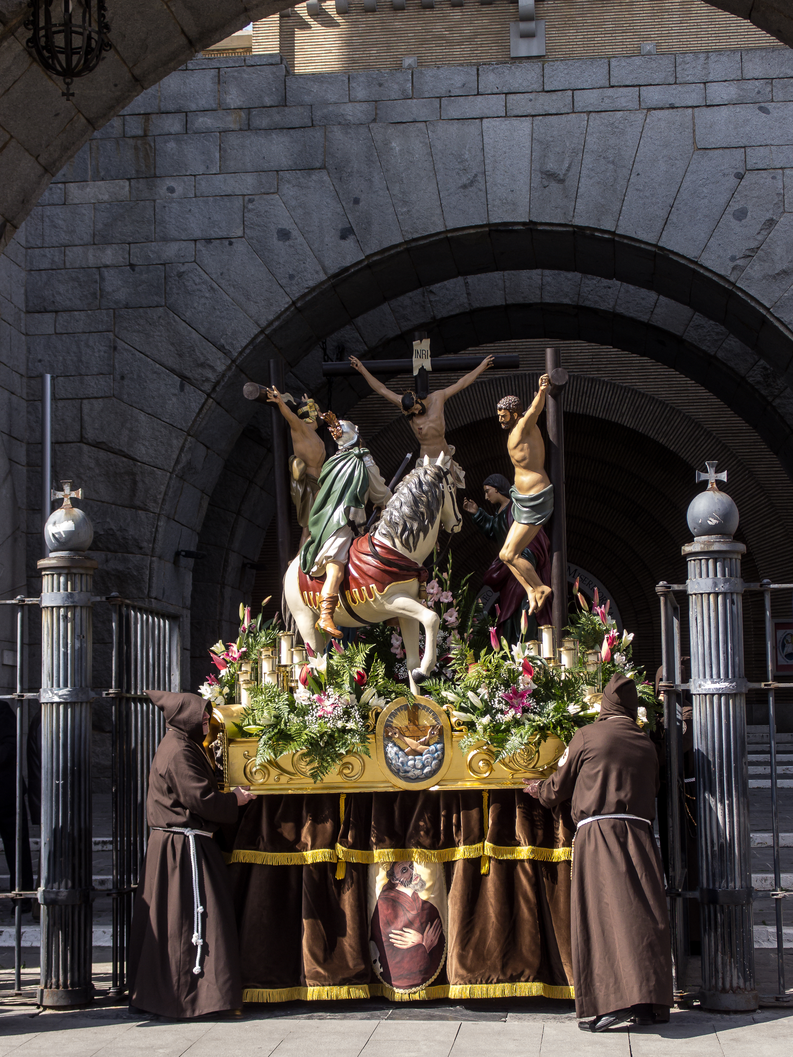 OLYMPUS DIGITAL CAMERA This is a photography of a Folklore festival in Spain (Wikidata id Q9075892).